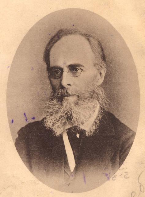 Alexander Potebnya